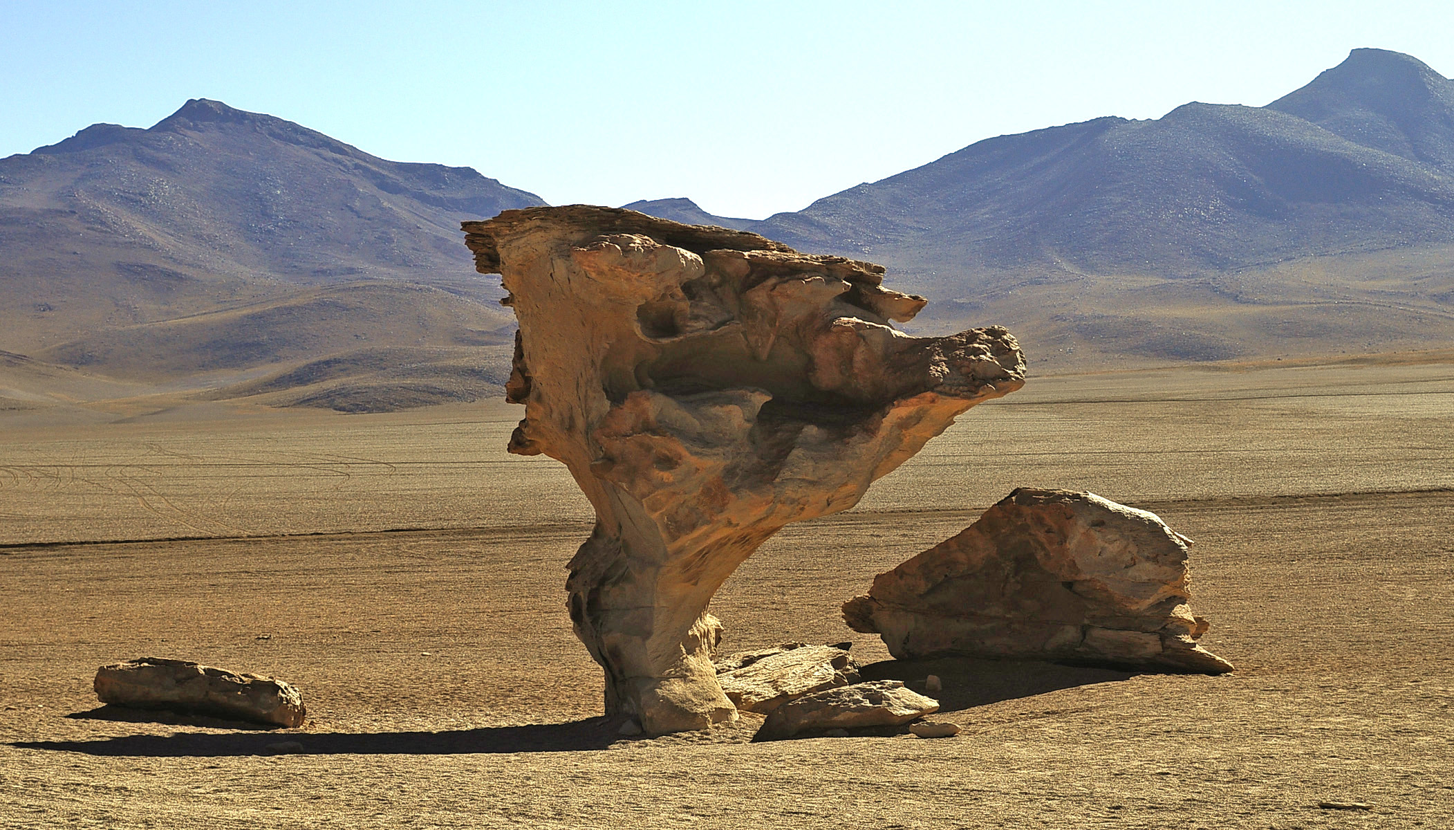 Natural monolith so-called "Árbol de Piedra" (Stone Tree), Pampa de Siloli, "Eduardo Avaroa" Andean Fauna Reserve, Potosí, Bolivia